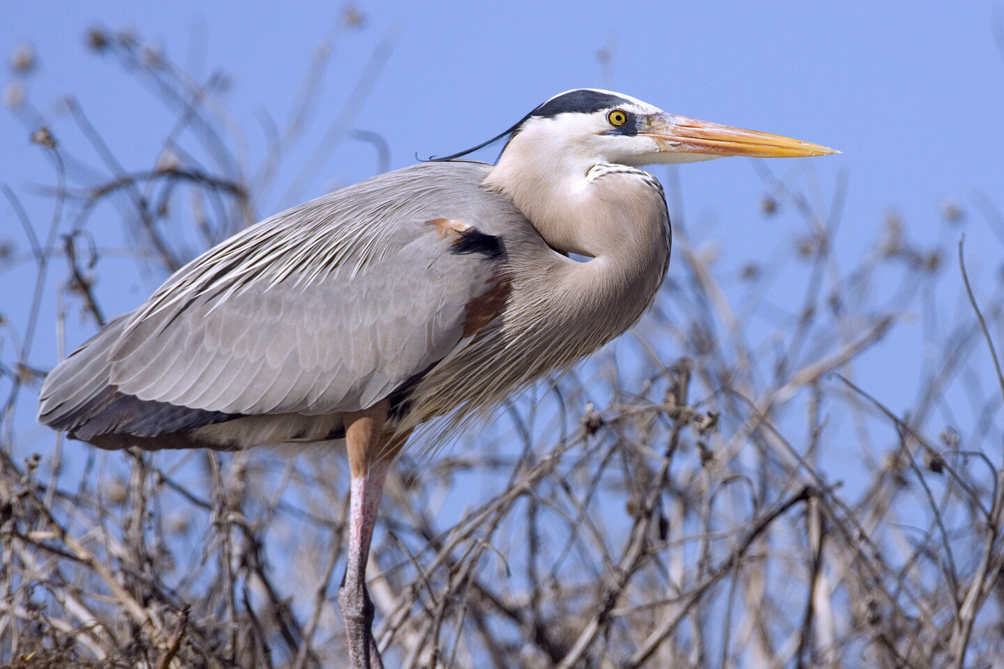 Great Blue Heron, Mustang Island Beach Near Port Aransas, Texas